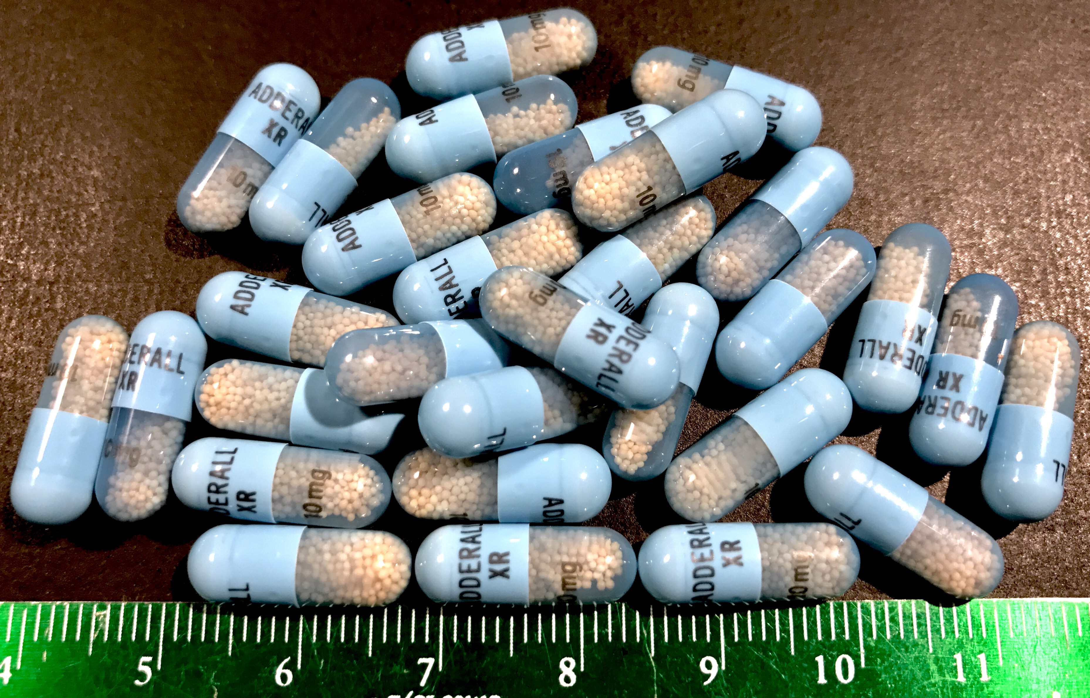 One month suply of Adderall 10mg